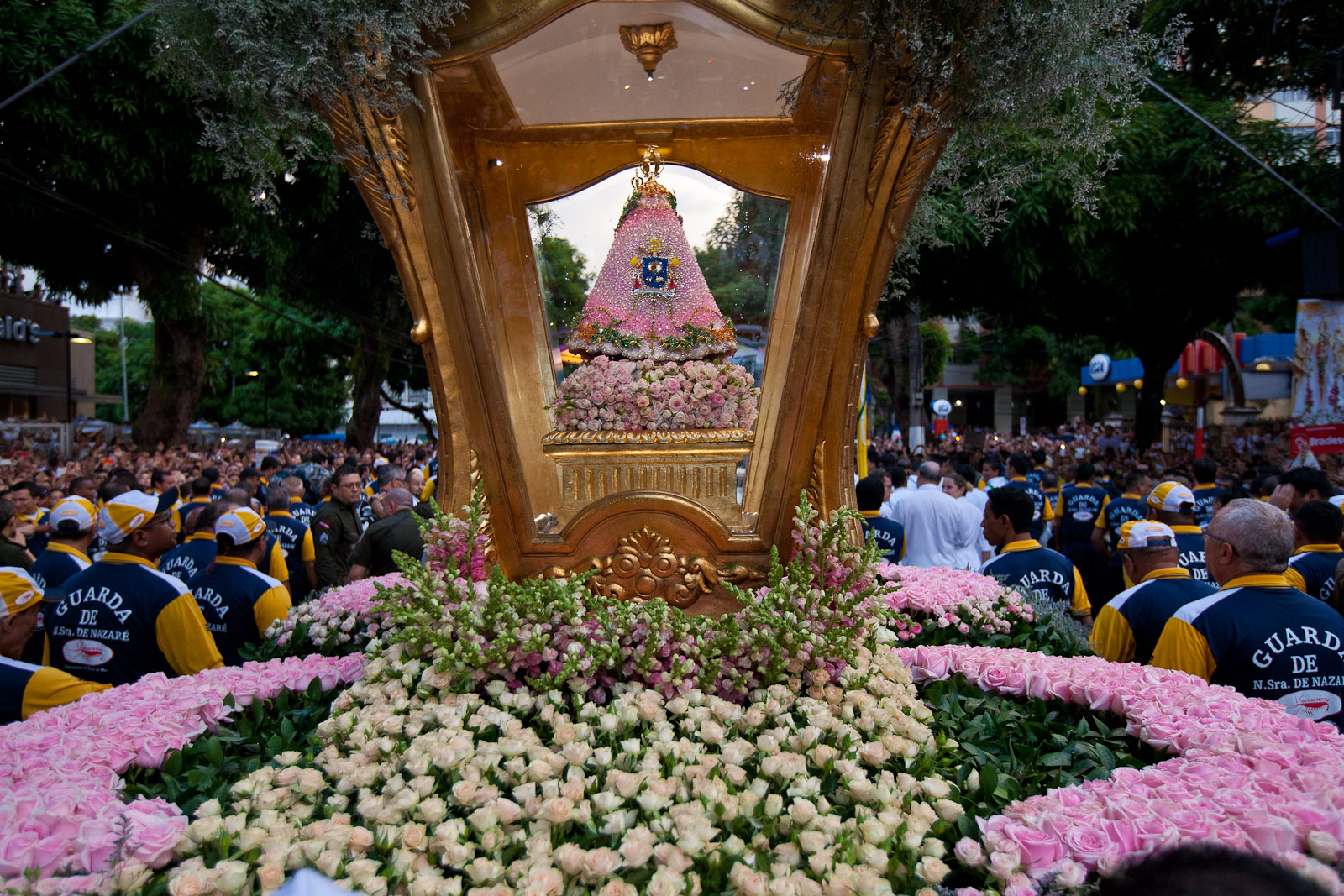 BELEM, PA, BRASIL, 12-10-2013, 19h00: Berlinda da imagem de Nossa Senhora de Nazare durante a 5ª procissao do Cirio, chamada de "trasladacao". (Foto: Ze Carlos Barretta/Folhapress)